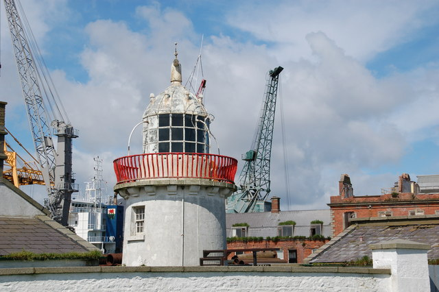 Old lighthouse, Greenore harbour. Greenore is one of two commercial harbours in Carlingford Lough. The harbour was developed by the old London and North Western Railway which operated a ferry service to Holyhead. It is now privately owned. The photograph shows the disused lighthouse (discontinued in 1986) which marked the approach to the harbour.